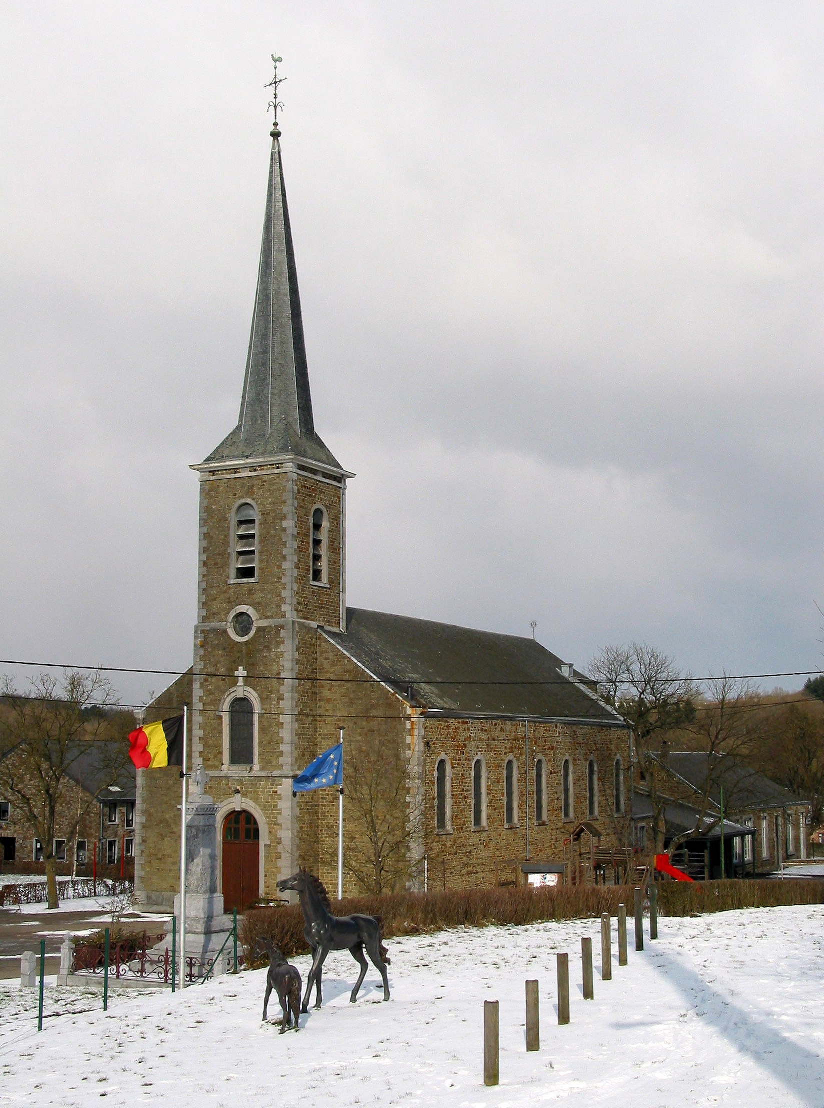 Hargimont (Belgium) : the Saint Gobert churh (1876).